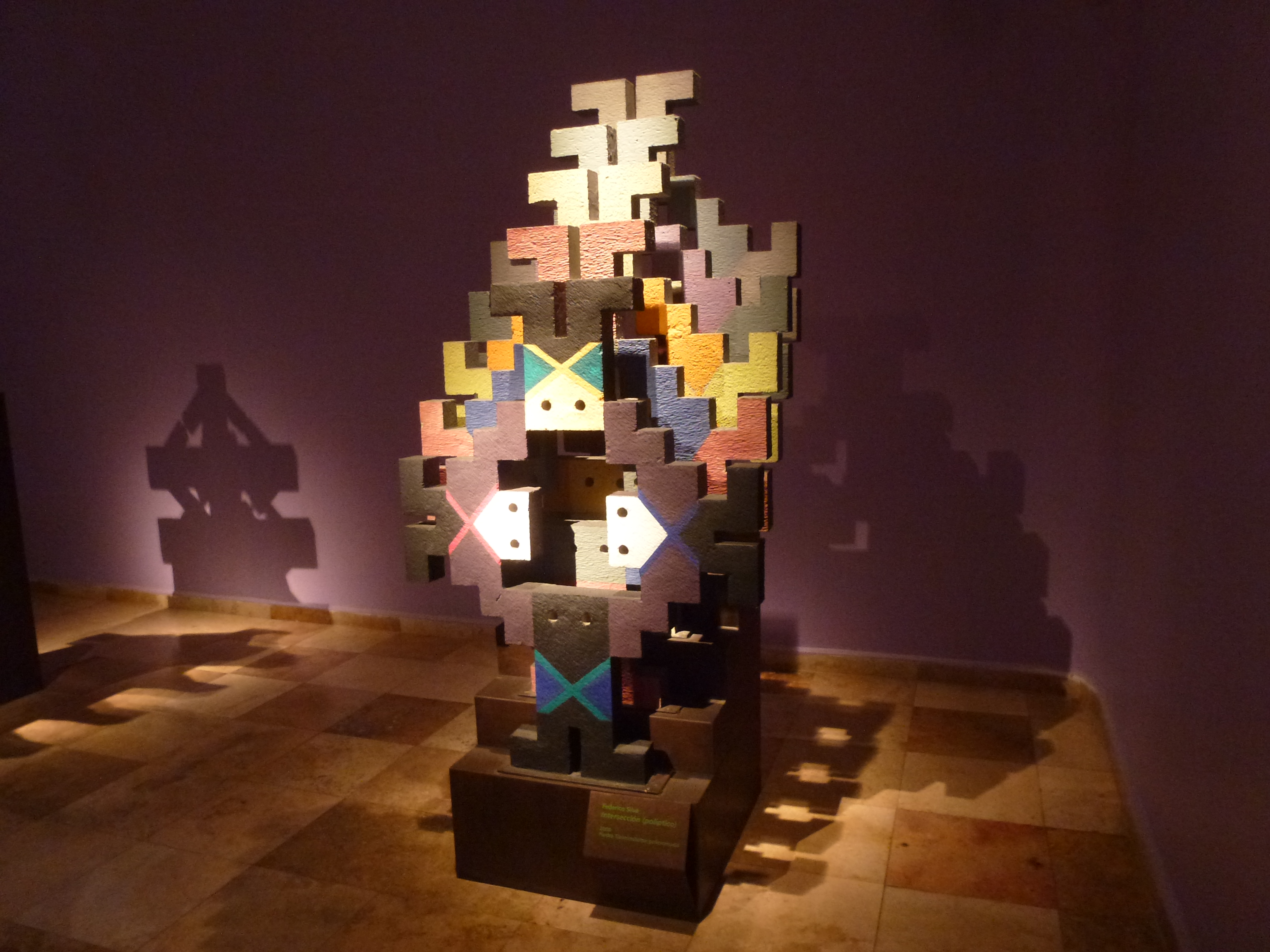 Intersección (poliptico) --- sculpture of Federico Silva, 2000 (in Federico Silva Museum, San Luis Potosi, Mexico)